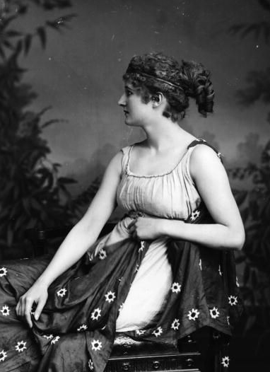 Identified as by Getty Images as "Actress Mary Aynderson in a scene from the play, 'Hypatia'." However there is no actress called "Mary Aynderson". Julia Neilson played the title role when Ogilvie's play 'Hypatia' was first performed in 1893. It could alternatively be the actress Mary Anderson, but there is no reason to suppose Anderson ever played the role of Hypatia on stage.